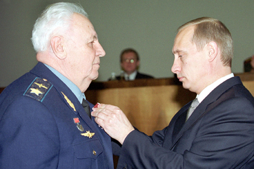 THE DEFENCE MINISTRY, MOSCOW. President Putin decorating former Air Force Commander-in-Chief (December 1984 - July 1990) and Deputy Defence Minister of the USSR Air Marshal Alexander Yefimov with the Order of Courage.